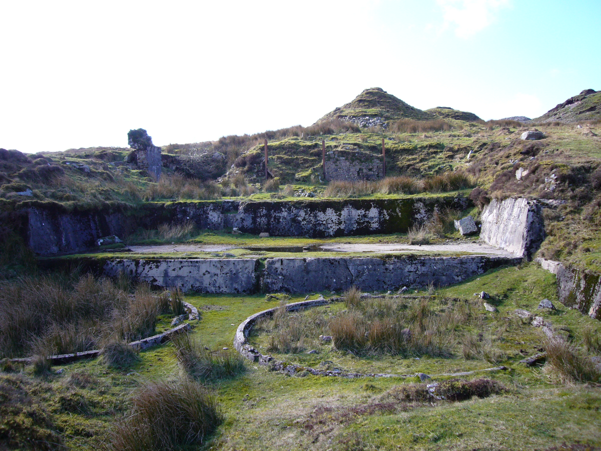 A view of some of the remaining works area of the Hooten Wheels mine. This is on the O Brook on southern Dartmoor. This was one of the last working mines on Dartmoor.